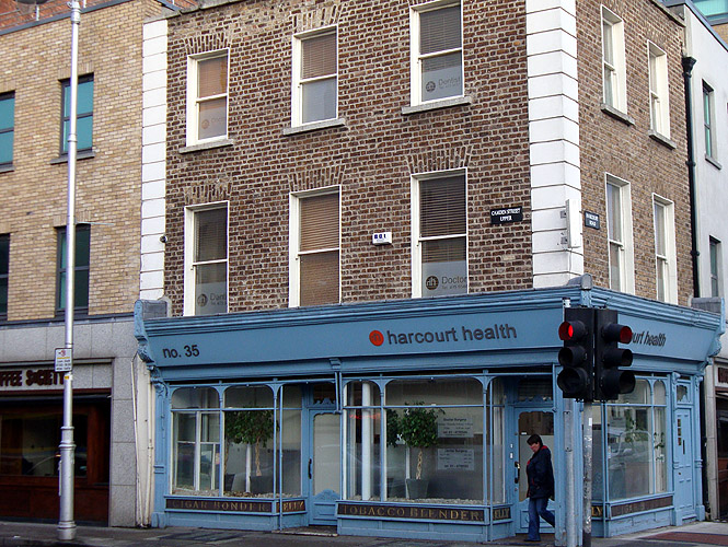 Photograph of the former Kelly's tobacconist, Kelly's Corner, Dublin, Ireland. Taken by me 20 January 2009.